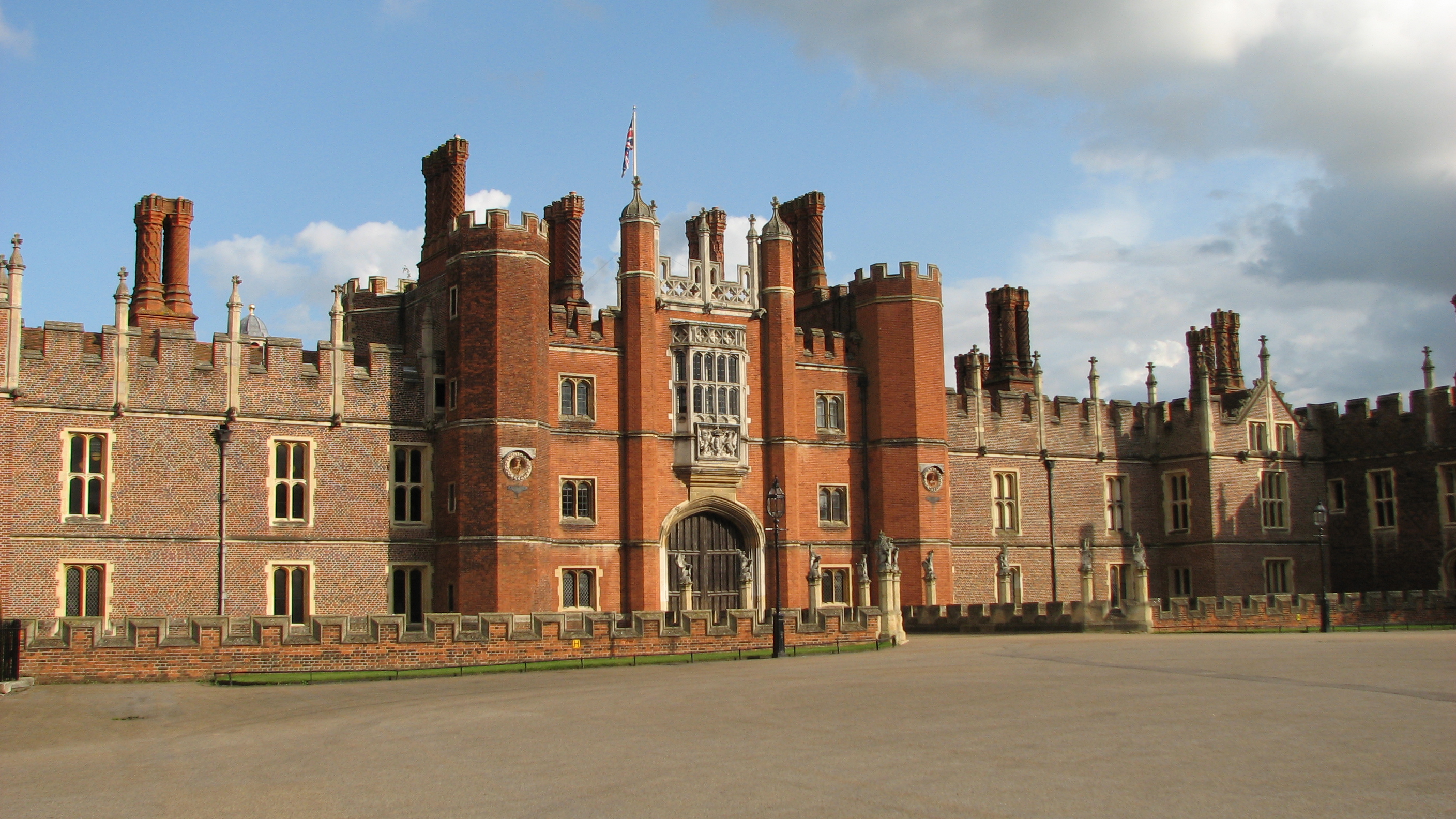 London - September 2008